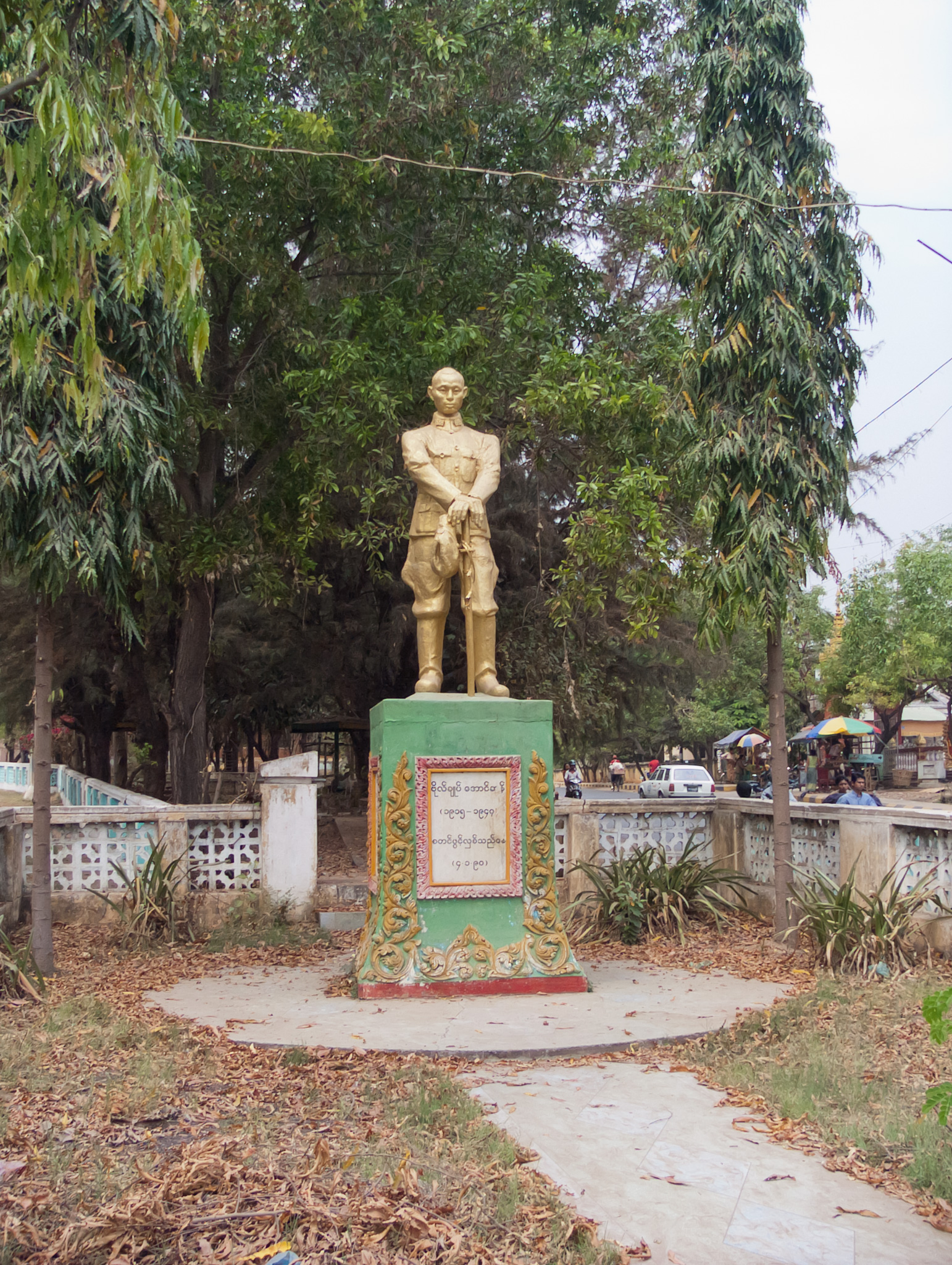 Aung San statue in Meiktila